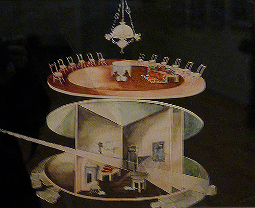 "THE MUTE SPEAK" - (Gerzel Baazov) Staged By Dodo Abashidze. State Dramatic Thearte. Artistic director Kote Marjanishvili. Tbilisi, 1932